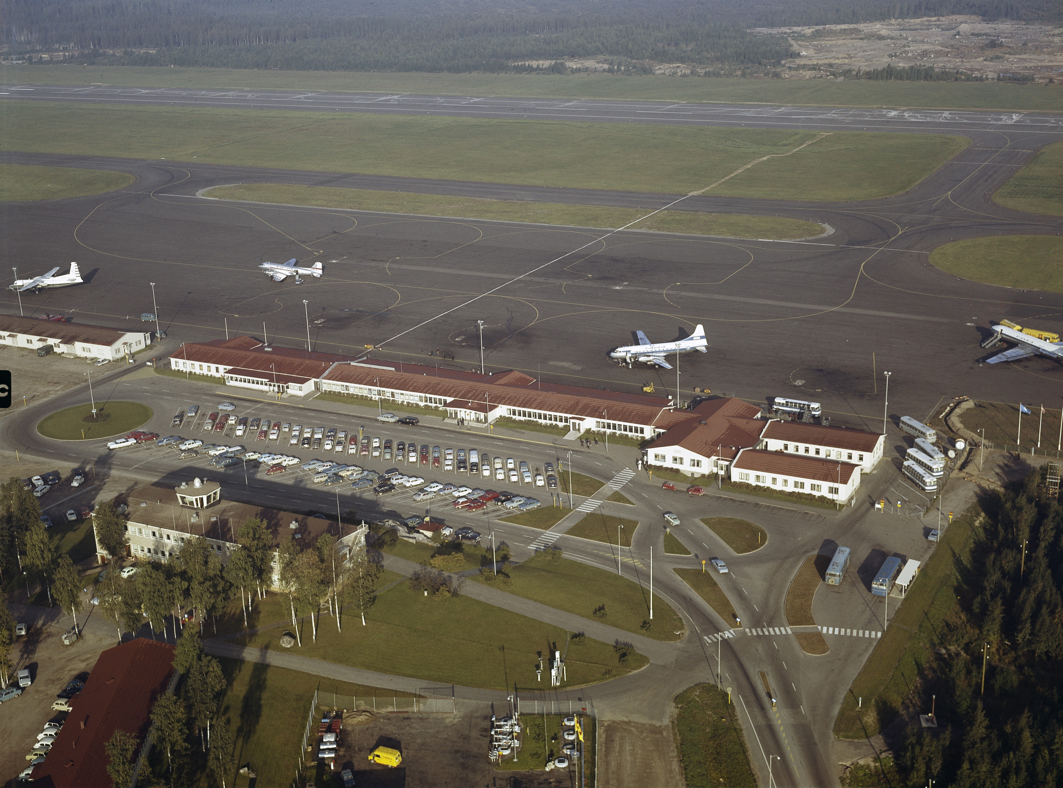 Aerial photograph of the original terminal of Helsinki Airport